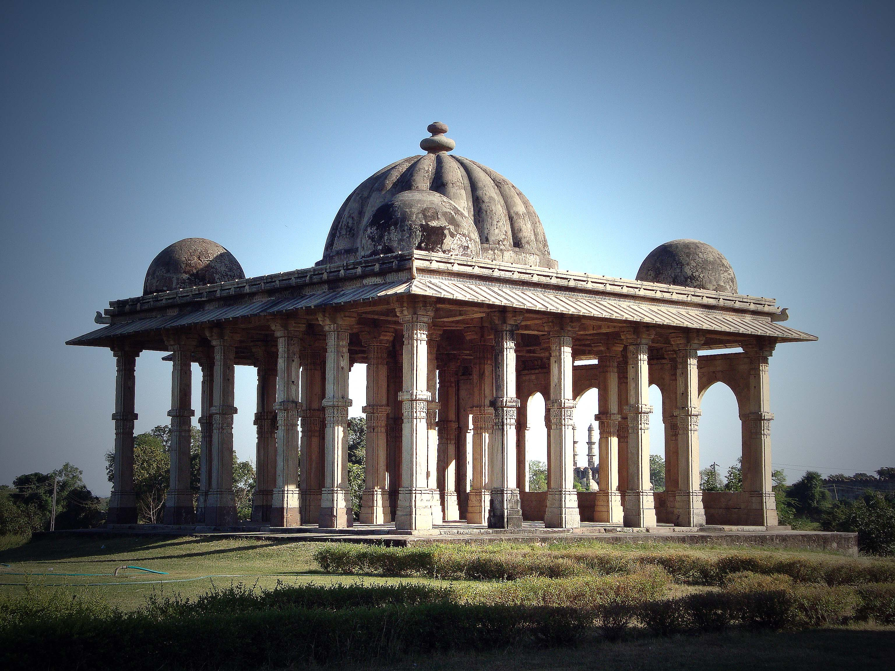 Canatoph of Kevda Masjid Champaner Godhra